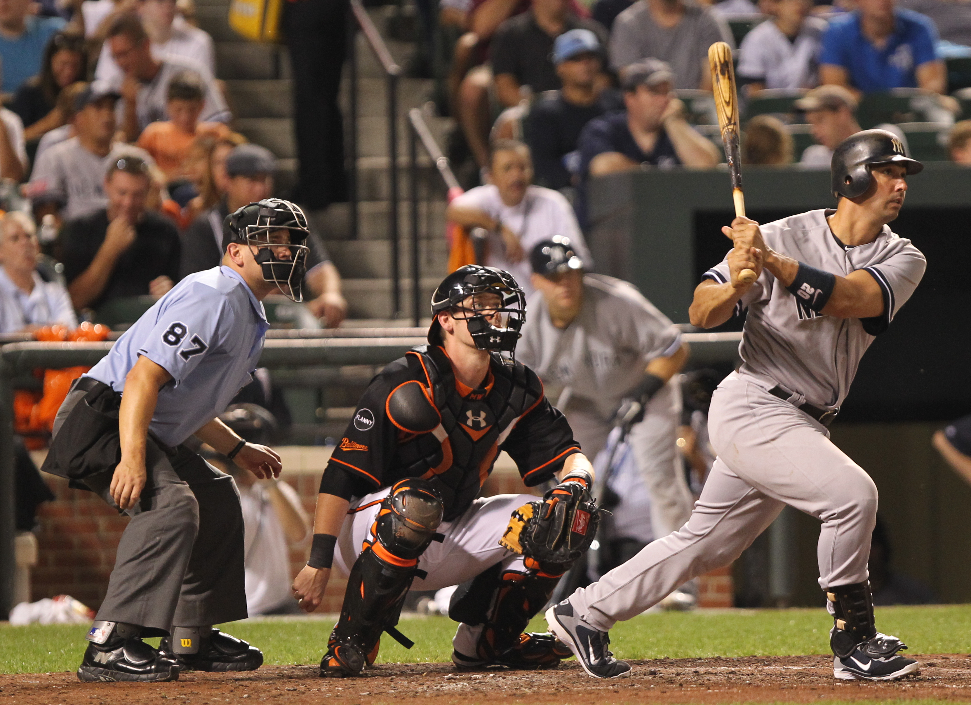 Jorge Posada swings at a pitch during a game between the New York Yankees and the Baltimore Orioles on August 26, 2011